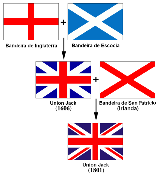 Translated from Image:Flags of the Union Jack-fr.png with Galican captions Basic language-neutral SVG available at Image:Flags of the Union Jack.svg